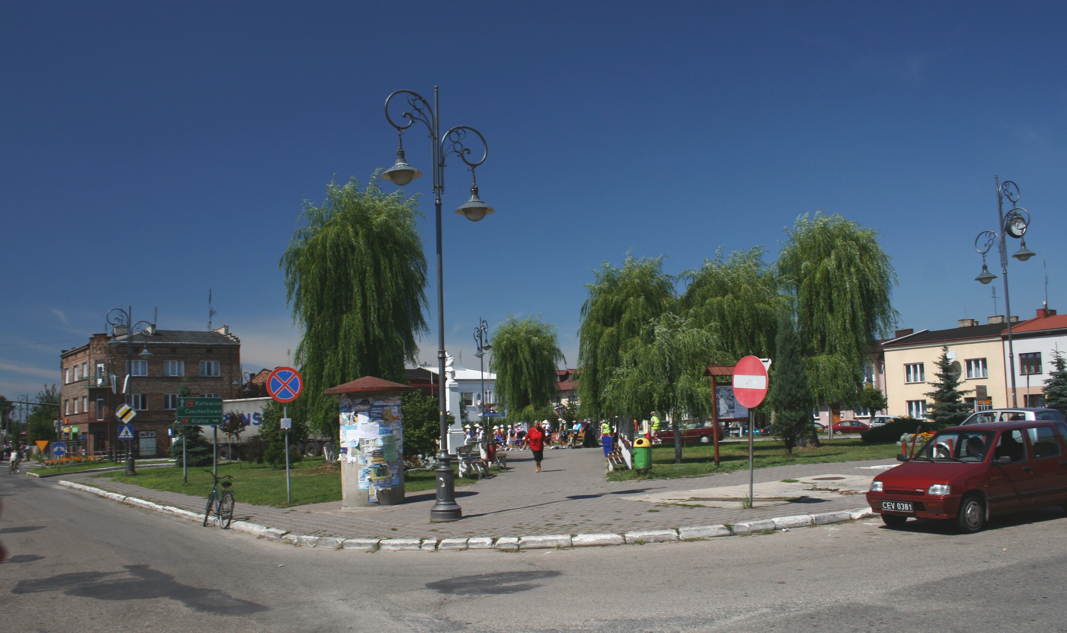 Szczekociny, Poland